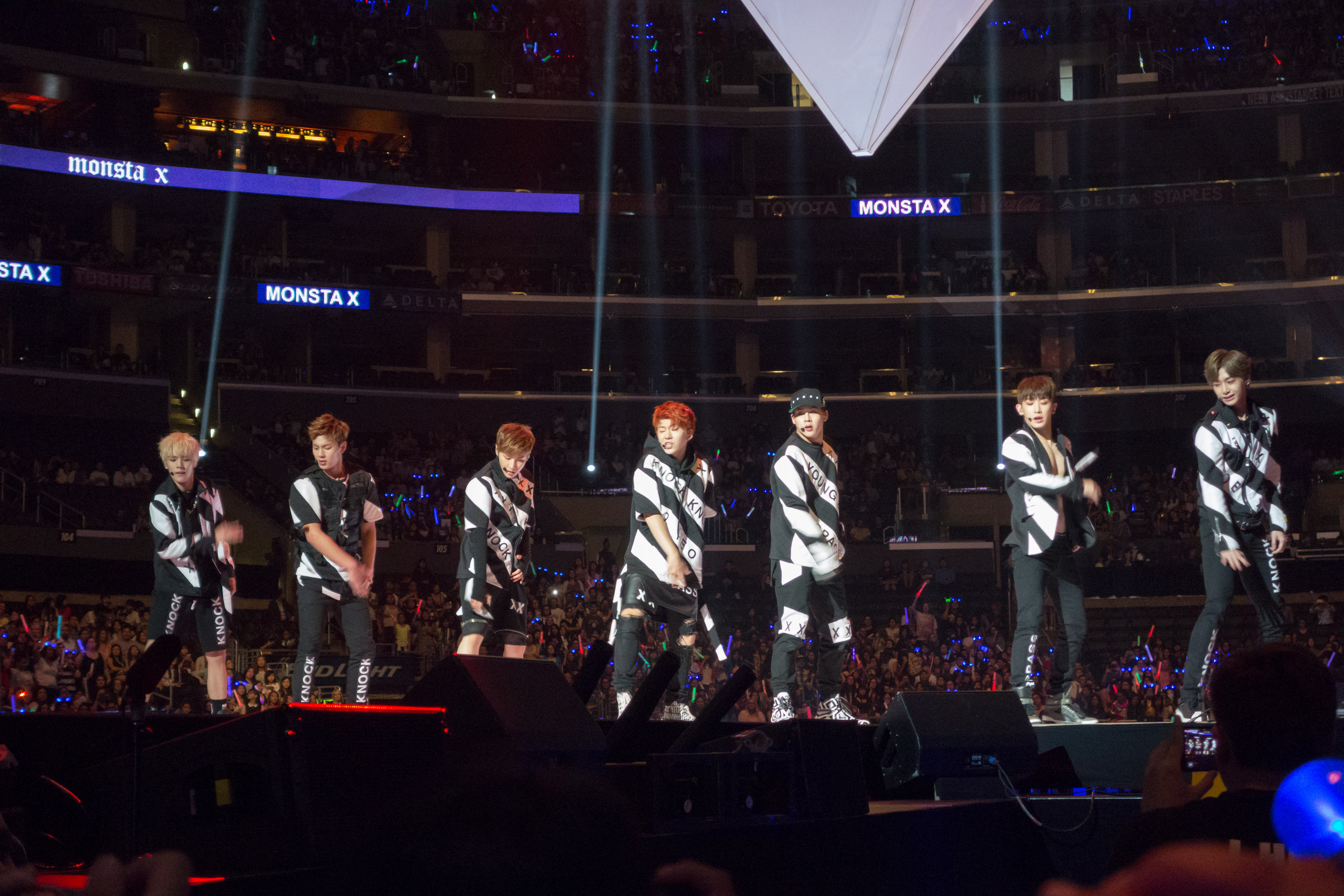 Monsta X performing at L.A. KCON 2015.